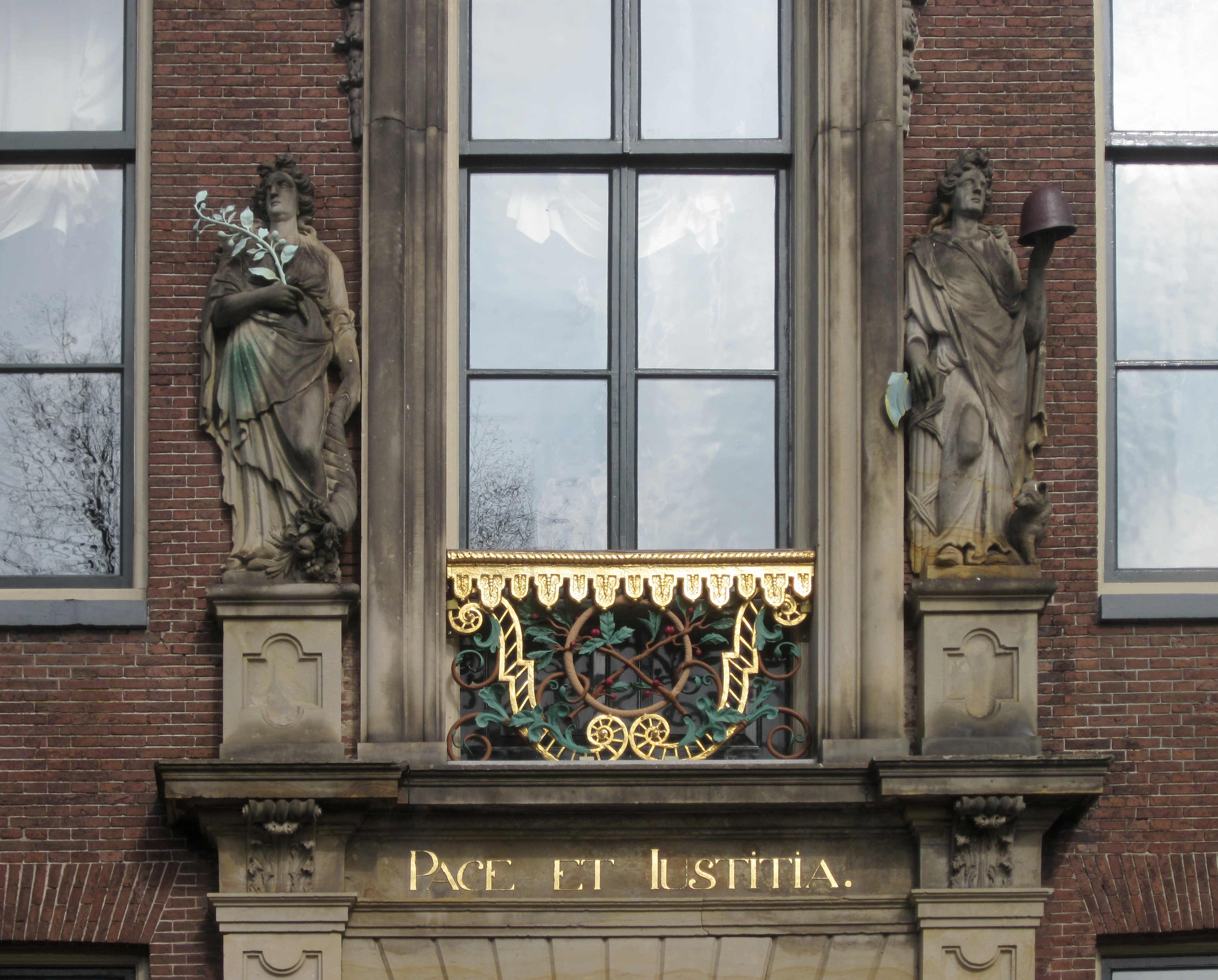 Reliefs of Peace and Justice at the former Raadhuis at the Raadhuisplein in Leeuwarden. Dating from 1715 and created by Gerbrandus van der Haven.